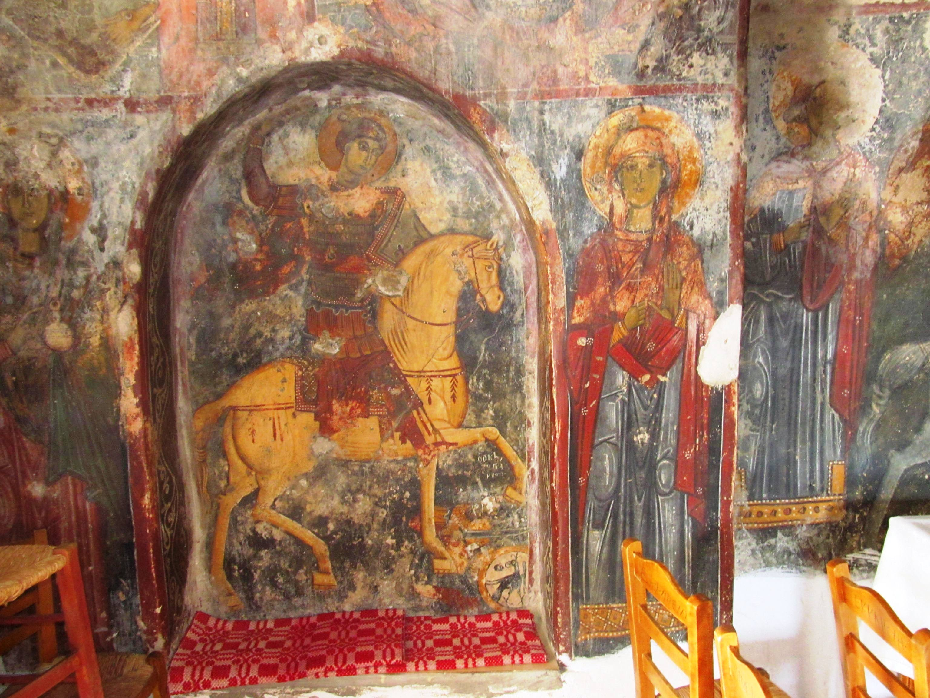 Fresco of St. George in Anydroi church of St. George